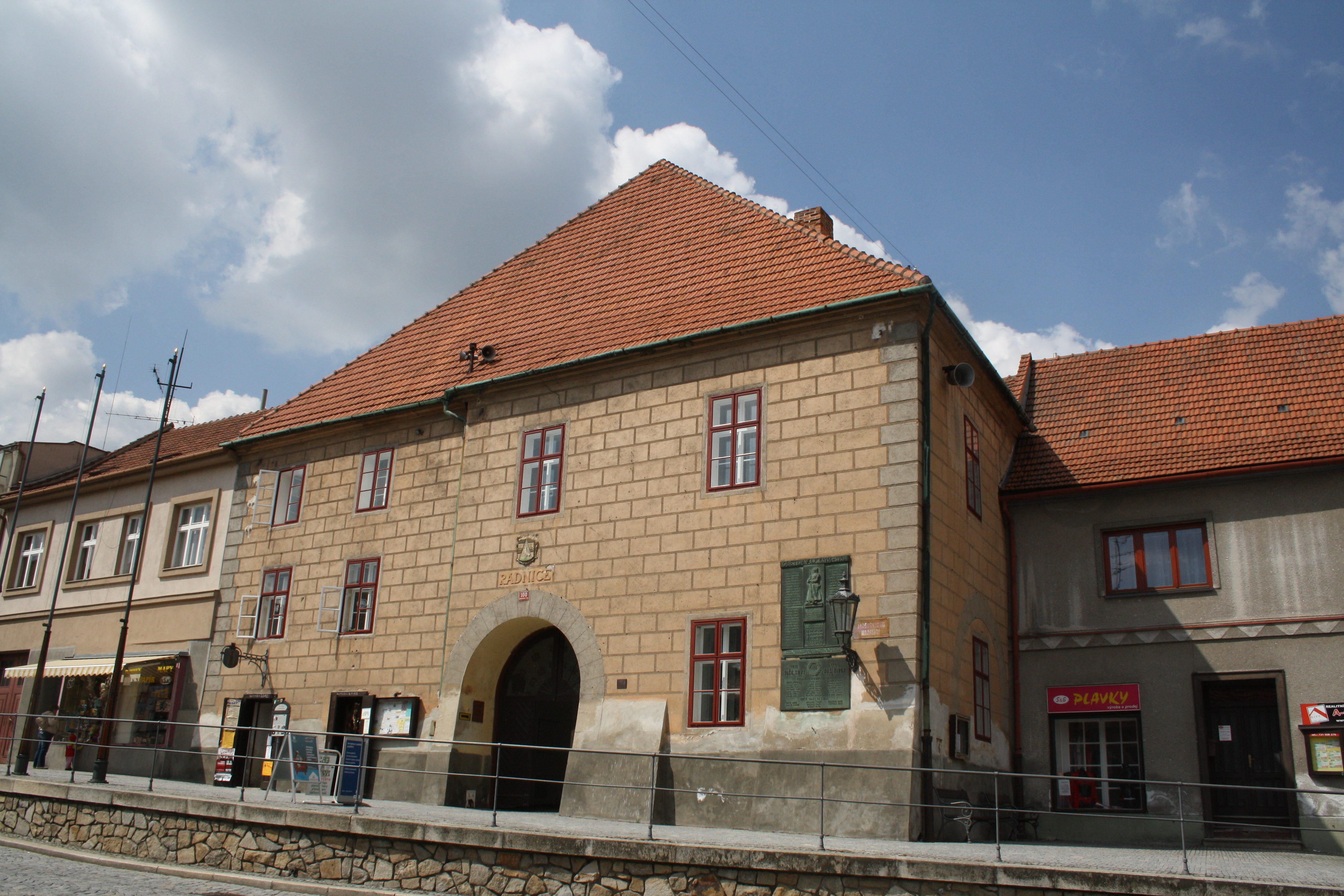 Former Town hall in Náměšť nad Oslavou.